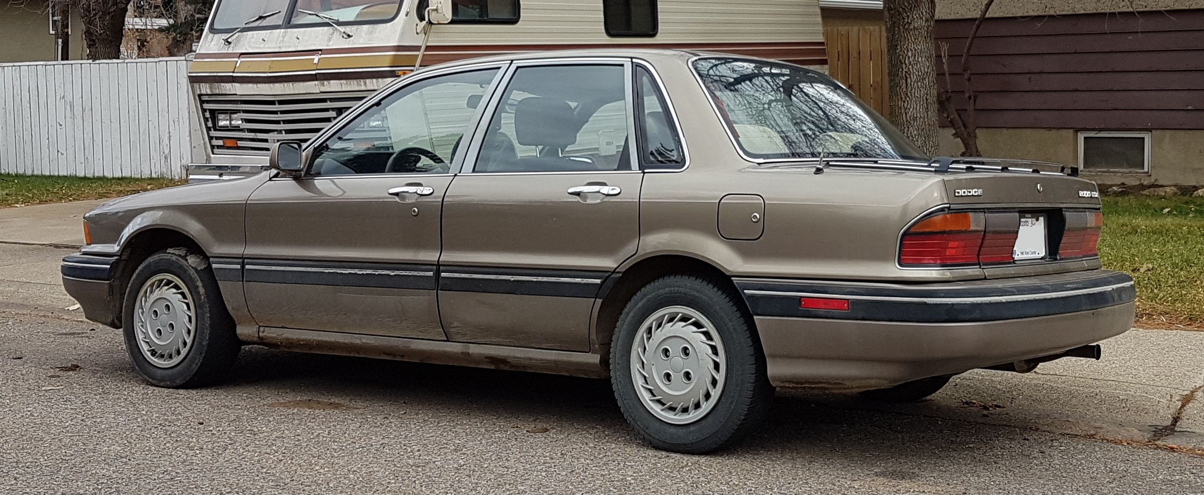 Dodge 2000 GTX is a re-badged Mitsubishi Galant sold only in Canada.